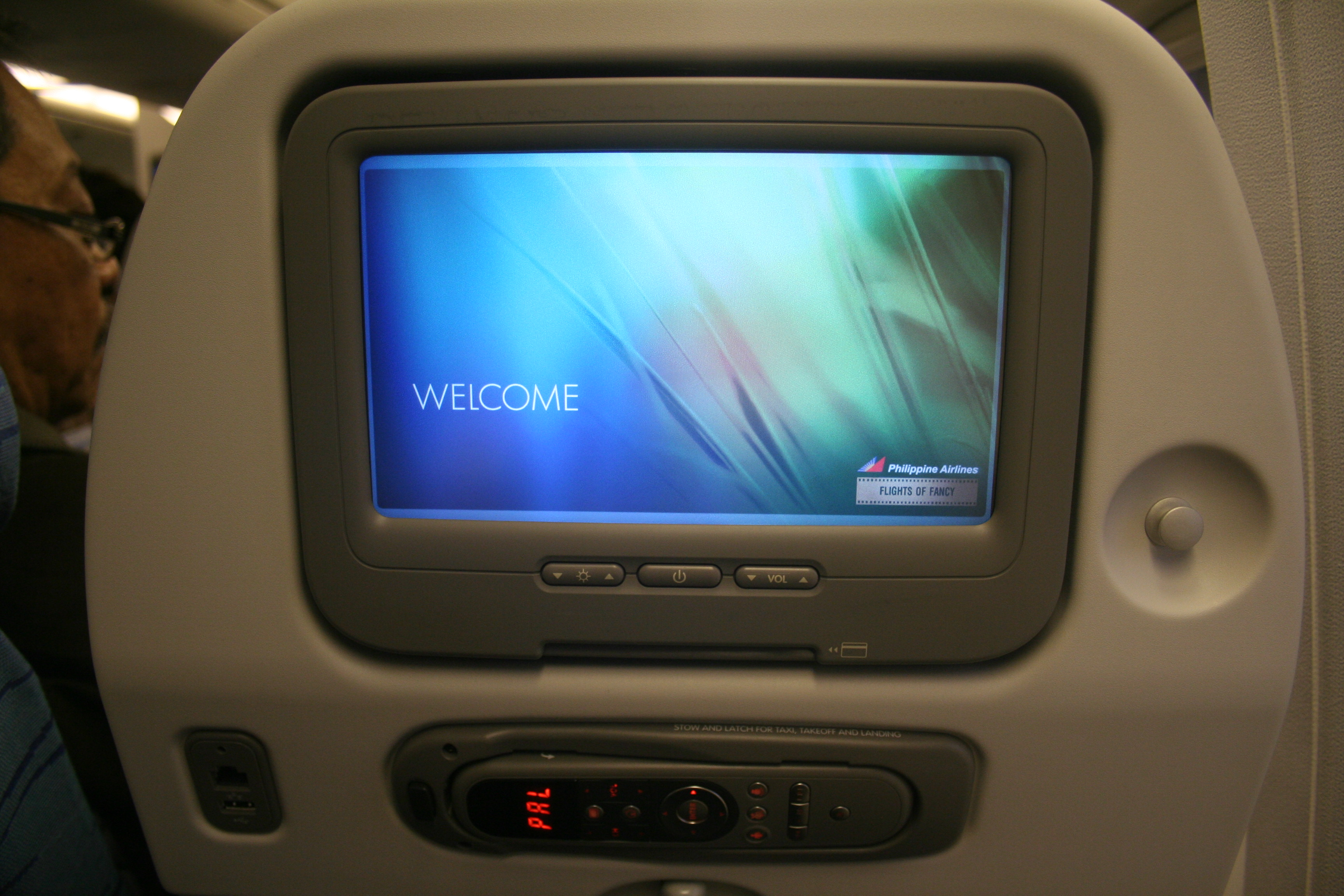 The in-flight entertainment system installed in a Philippine Airlines Boeing 777-300ER economy class seat. Note that at the time I took the photo, the system was called "Flights of Fancy"; this was changed to "myPAL eSuite" in 2016.